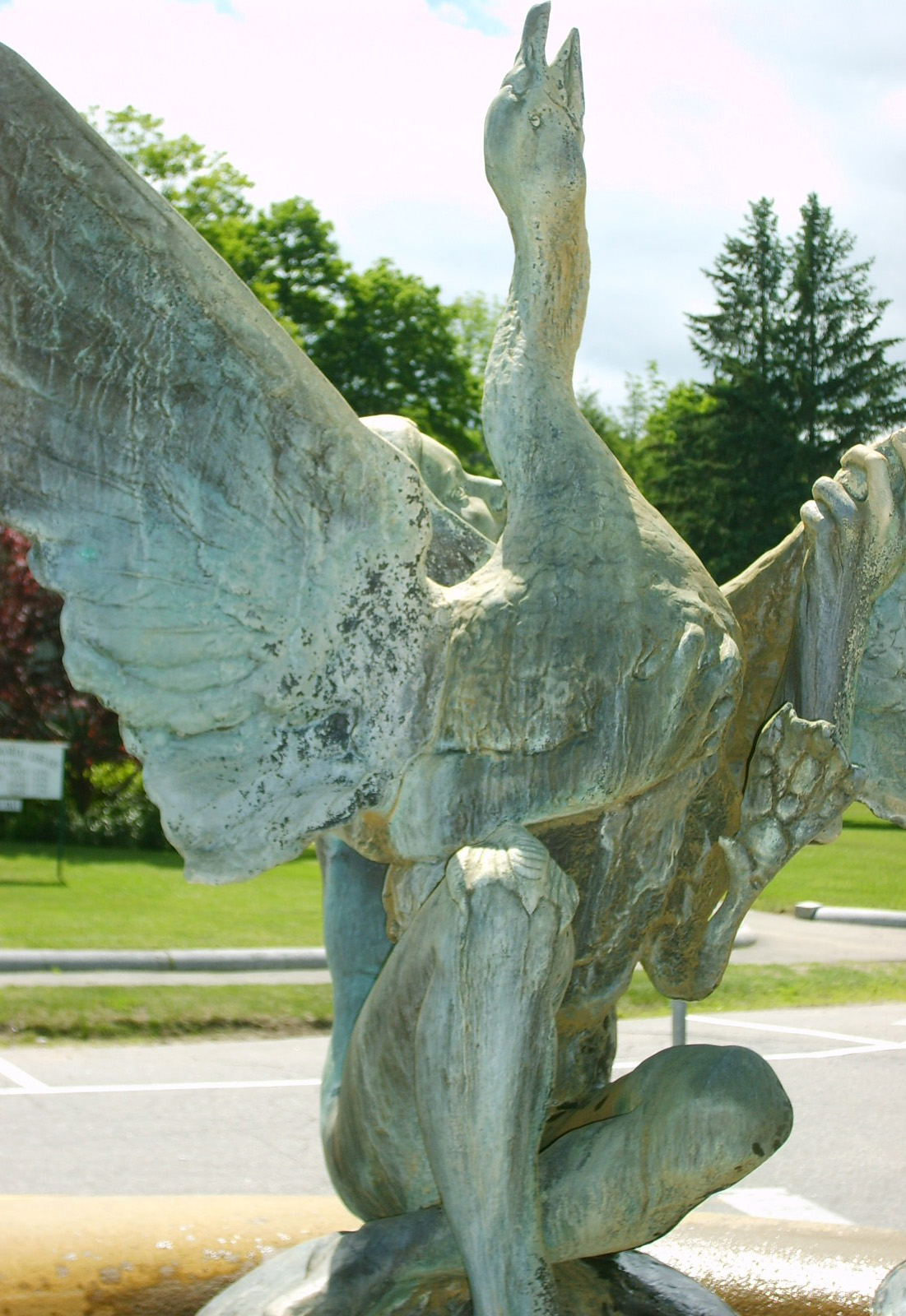 Kona Fountain, Center Harbor, New Hampshire (close view)